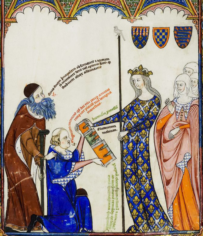 Ramon Llull (left), with his disciple Thomas le Myesier (middle, kneeling), presenting three anthologies (compilations of Lull's thought) to the Queen of France and Navarre, Joan II of Burgundy (wife of King Philip V of France) Miniature from "Breviculum seu electorium parvum" of Thomas le Myésier, Karlsruhe, Badische Landesbibliothek, St. Peter perg. 92, fol. 12r